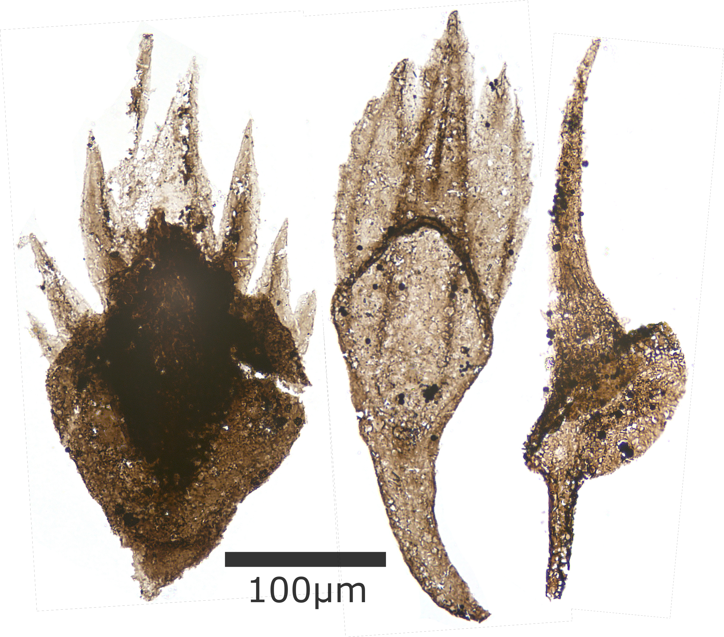 Thelodont denticles recovered from Kerrera after acid maceration, photographed on Zeiss Axioplan 2. Left to right: Paralogania (?), Shielia taiti, Lanarkia horrida.